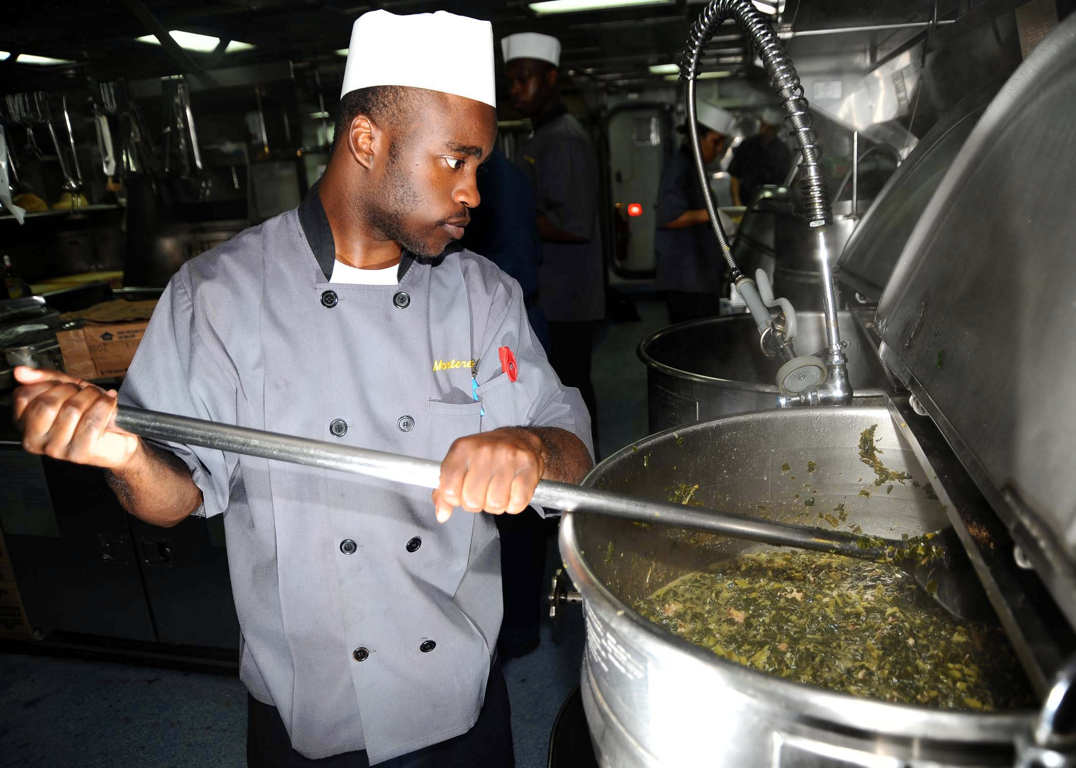 GULF OF OMAN (Nov. 27, 2008) Culinary Specialist Seaman Freddie Green prepares collard greens for the crew's Thanksgiving dinner aboard the guided-missile cruiser USS Monterey (CG 61). The Ticonderoga class cruiser and Carrier Strike Group (CSG) 2 are on deployment in the U.S. 5th Fleet area of responsibility and are focused on reassuring regional partners of the United States' commitment to security, which promotes stability and global prosperity. (U.S. Navy photo by Mass Communications Specialist 3rd Class Jonathan Snyder/Released)